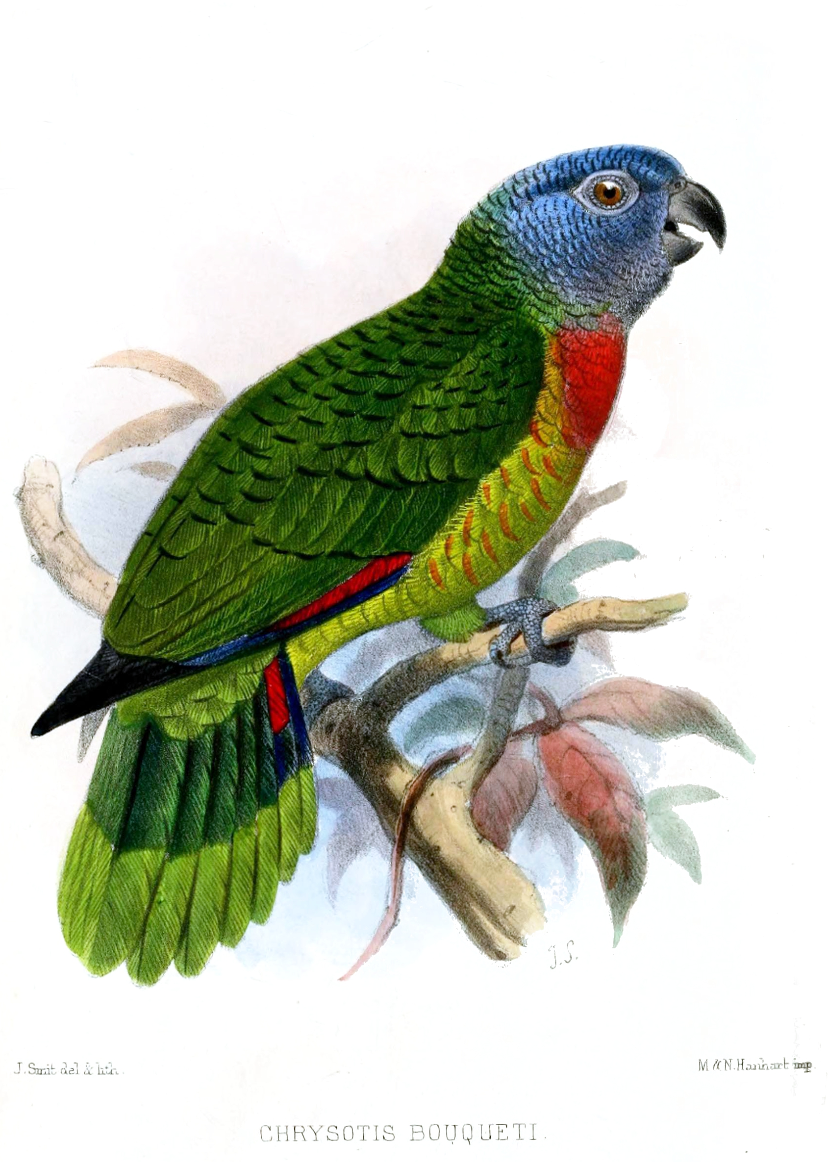 Chrysotis bouqueti (a.k.a. Amazona versicolor, the St. Lucia amazon, or the St. Lucia parrot)